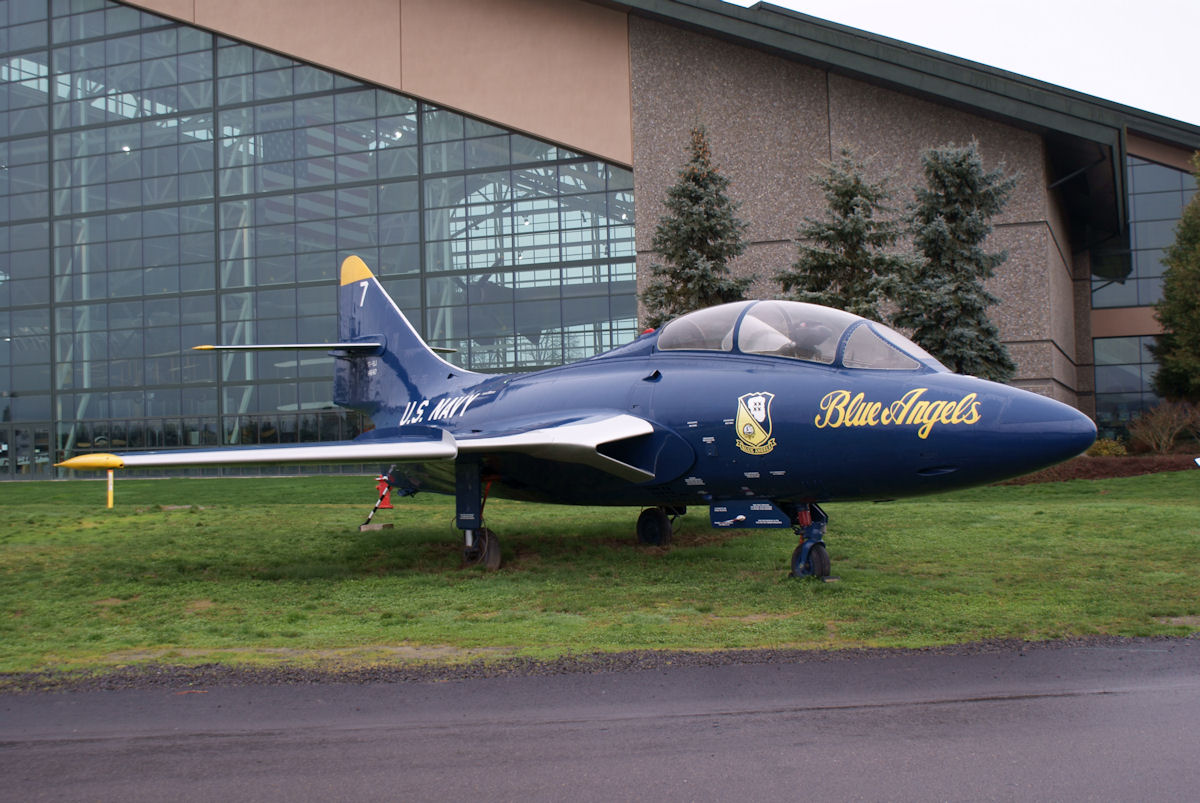 Grumman TF-9J Cougar Blue Angel on display at Evergreen Aviation & Space Museum in McMinnville, OR.